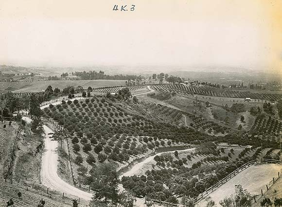 Citrus Orchards, Kurrajong Dated: No date Digital ID: 12932_a012_a012X2450000131 Rights: We'd love to hear from you if you use our photos. Many other photos in our collection are available to view and browse on our website using Photo Investigator.